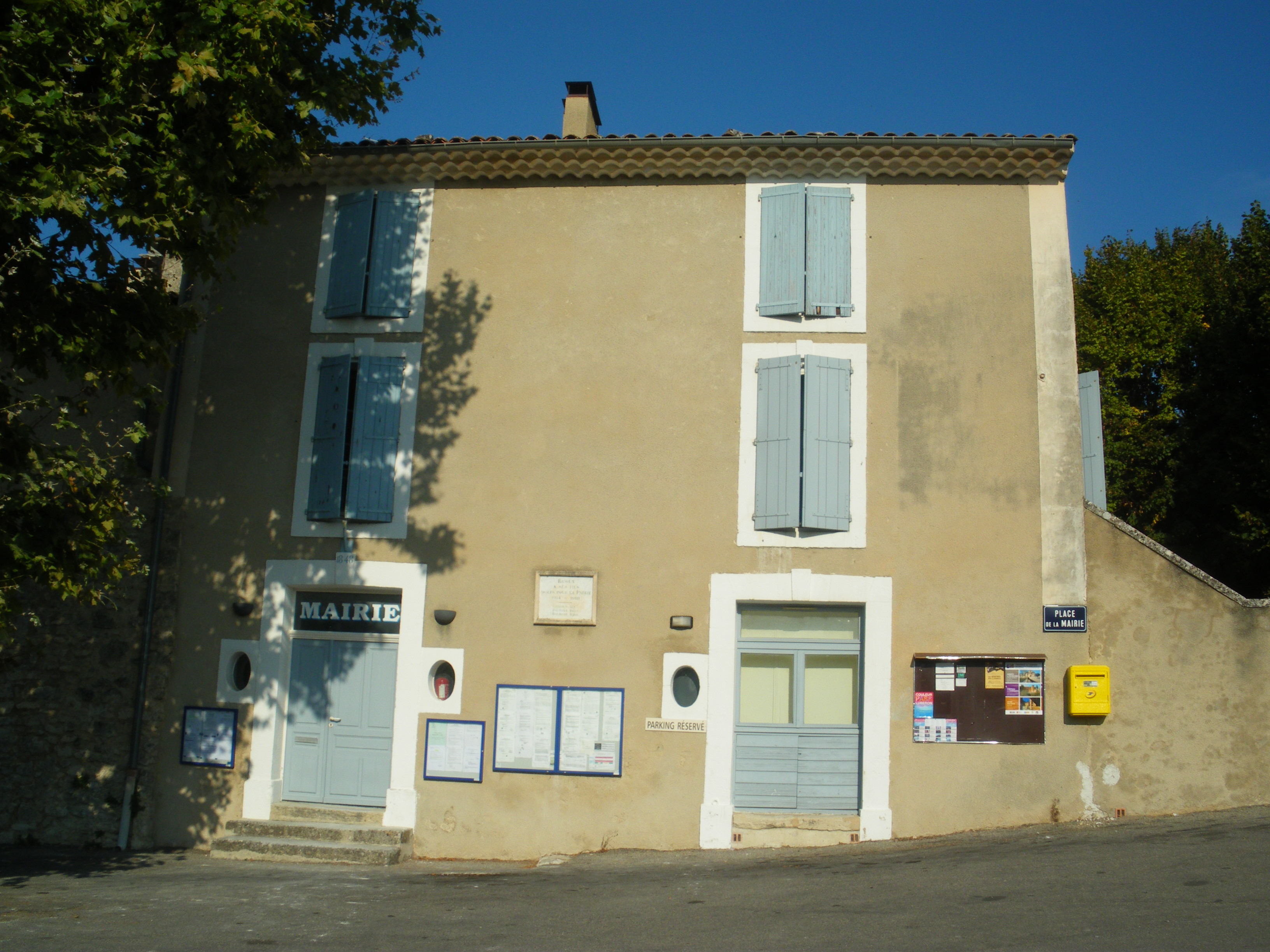 Buoux town hall, Vaucluse, France